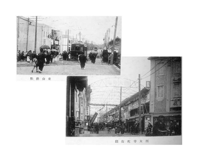 Higashiyama terminal station of Okayama Electric Tramway and Saidaiji area in Okayama city.